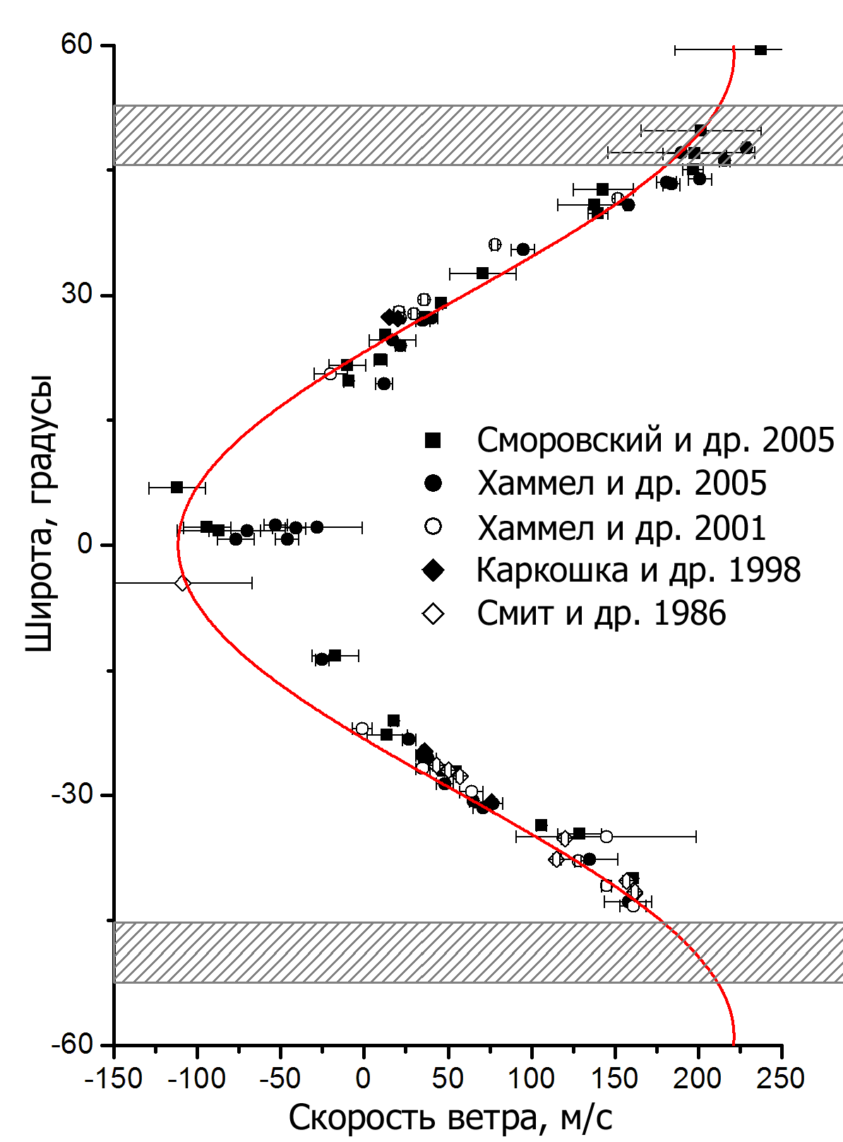 The figure shows zonal winds on Uranus as listed in Hammel, H.B.; Rages, K.; Lockwood, G.W.; et.al. (2001). "New Measurements of the Winds of Uranus". Icarus 153: 229-235. (Table II), in the figure Smith et.al. 1986, Karkoschka et.al.1998, Hammel et.al.2001. Hammel, H.B.; de Pater, I.; Gibbard, S.; et.al. (2005). "Uranus in 2003: Zonal winds, banded structure, and discrete features" (pdf). Icarus 175: 534-545. (Table 3), in the figure Hammel et.al. 2005) Sromovsky, L.A.; Fry, P.M. (2005). "Dynamics of cloud features on Uranus". Icarus 179: 459-483. (Table 7), in the figure Sromovsky et.al 2005 Shaded areas show southern collar and its future northern counterpart. The red curve is a symmetrical fit from Sromovsky et.al 2005.